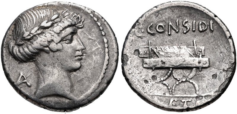 C. Considius Paetus 46 BC. AR Denarius (18mm, 3.56 g, 10h). Rome mint. Laureate head of Apollo right; A behind / Curule chair, garlanded, on which lies wreath. Crawford 465/2a; CRI 77b; Sydenham 991; Considia 2. VF, minor roughness.